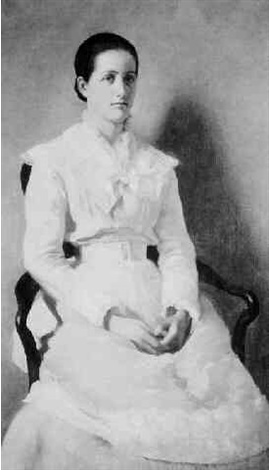 Black and white photograph of full length portrait of Clara Endicott Sears painted by Harper Pennington 1855–1920